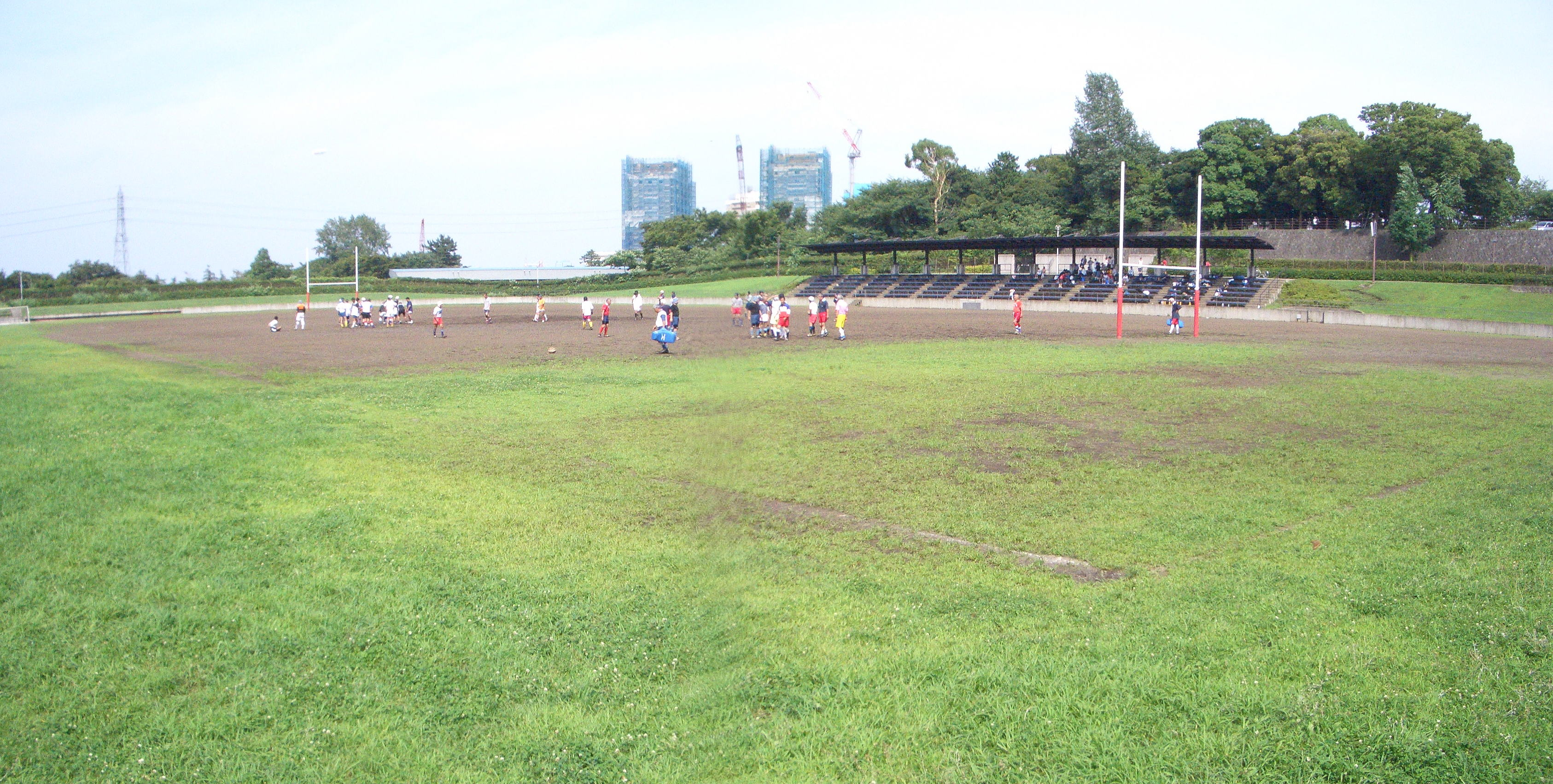 Hodogaya Rugby Studium (Yokohama-shi hodogaya-ku)